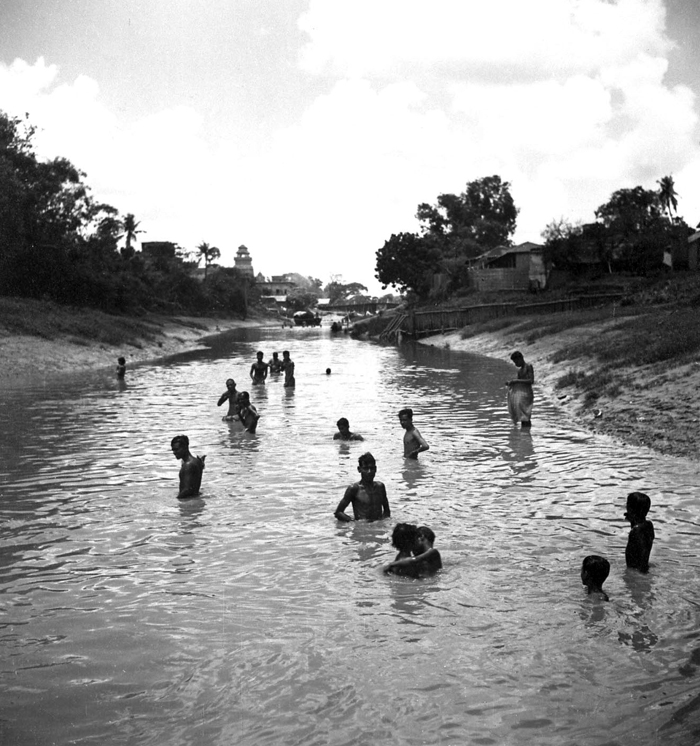 Description: "In Kalighat. Hindus bathing in the River Ganges from the ghats (or landing steps) to purify themselves before worshipping in the Temple of Kali close by." Photograph taken by Cecil Beaton for the Ministry of Information Date: 1944 Our Catalogue Reference: INF 14/433/3 This image is from the collections of The National Archives. Feel free to share it within the spirit of the Commons. For high quality reproductions of any item from our collection please contact our image library.